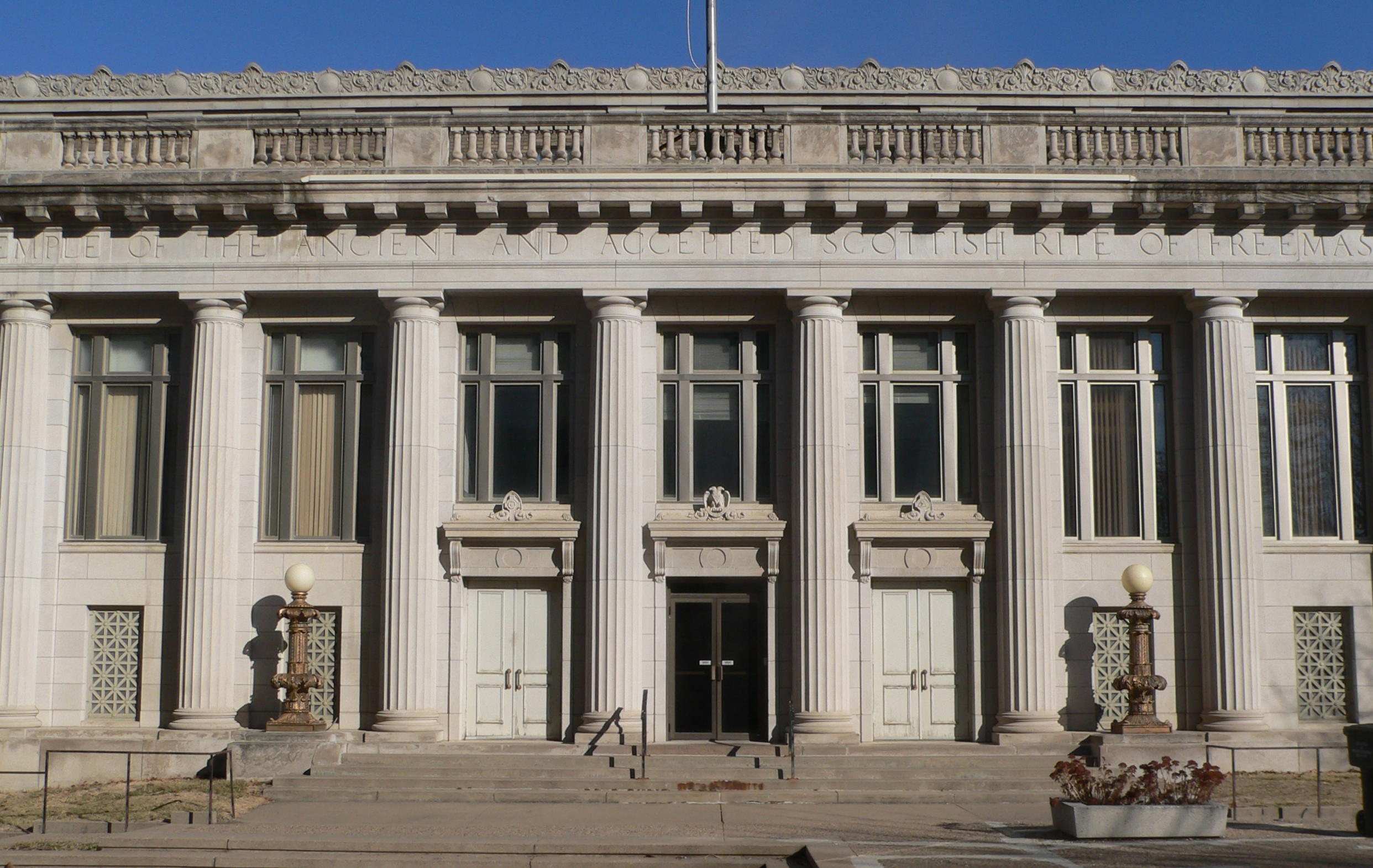 Scottish Rite Temple, located at 332 Centennial Mall South in Lincoln, Nebraska: center of front (west) side of building. The camera is facing eastward across Centennial Mall.